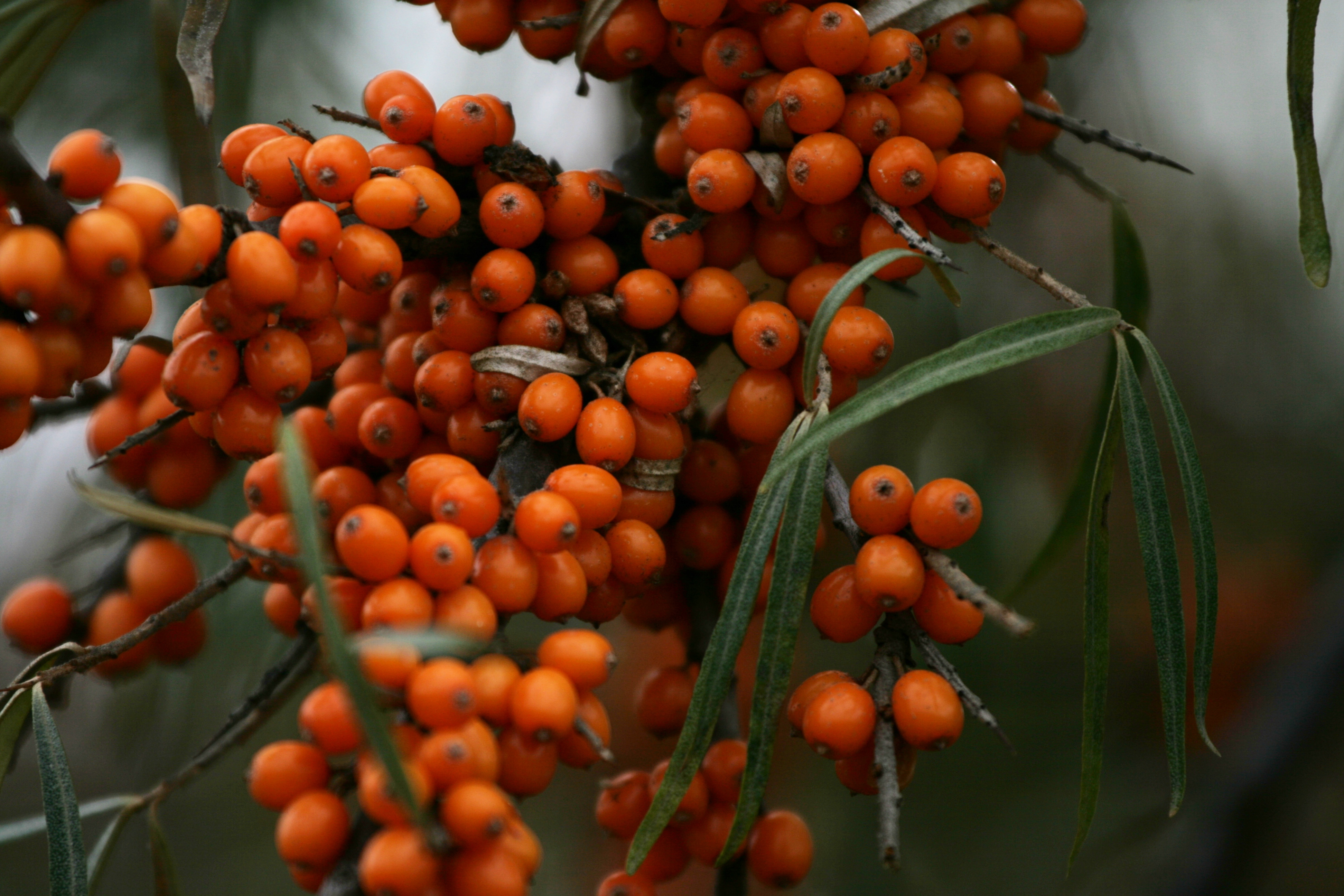 Hippophae rhamnoides (Sea Buckthorn), Sevan Botanical Garden, Armenia.